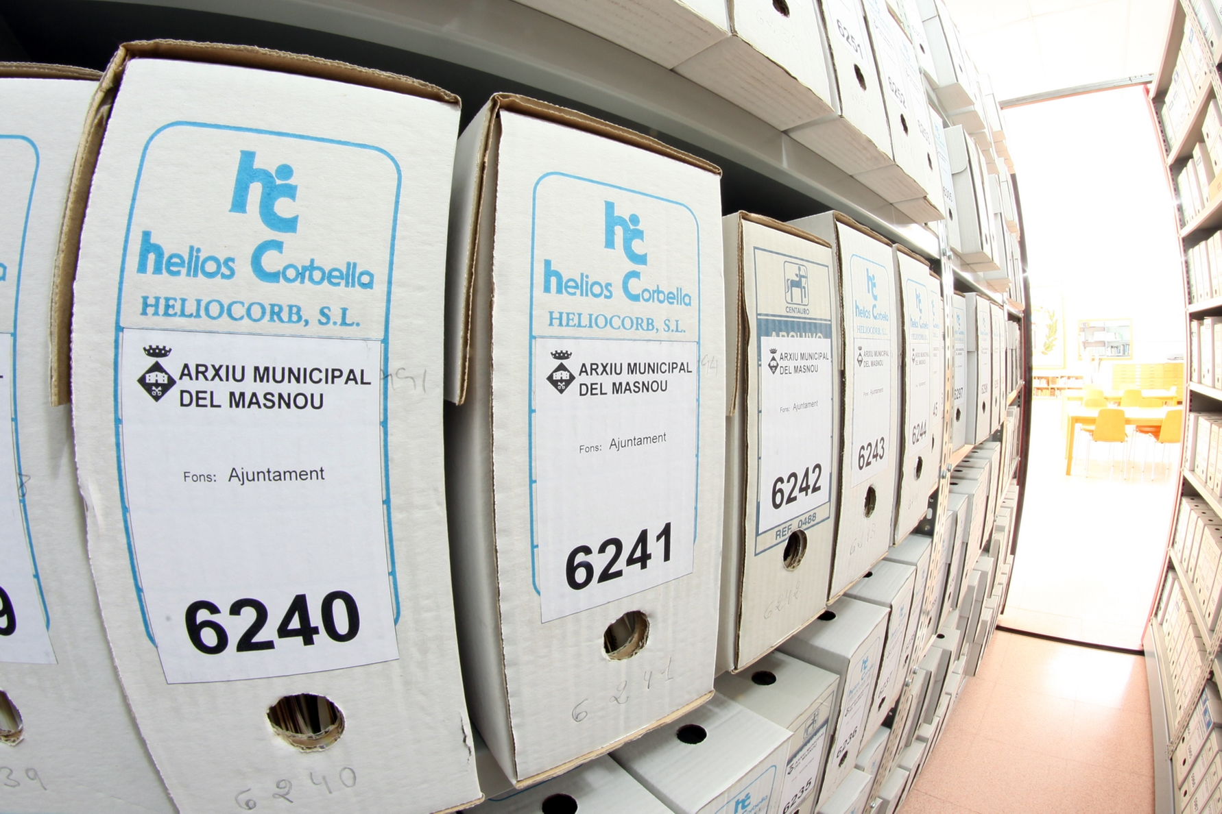 Archive transfer file of El Masnou City Council Fonds at the Municipal Archives of El Masnou (Spain).